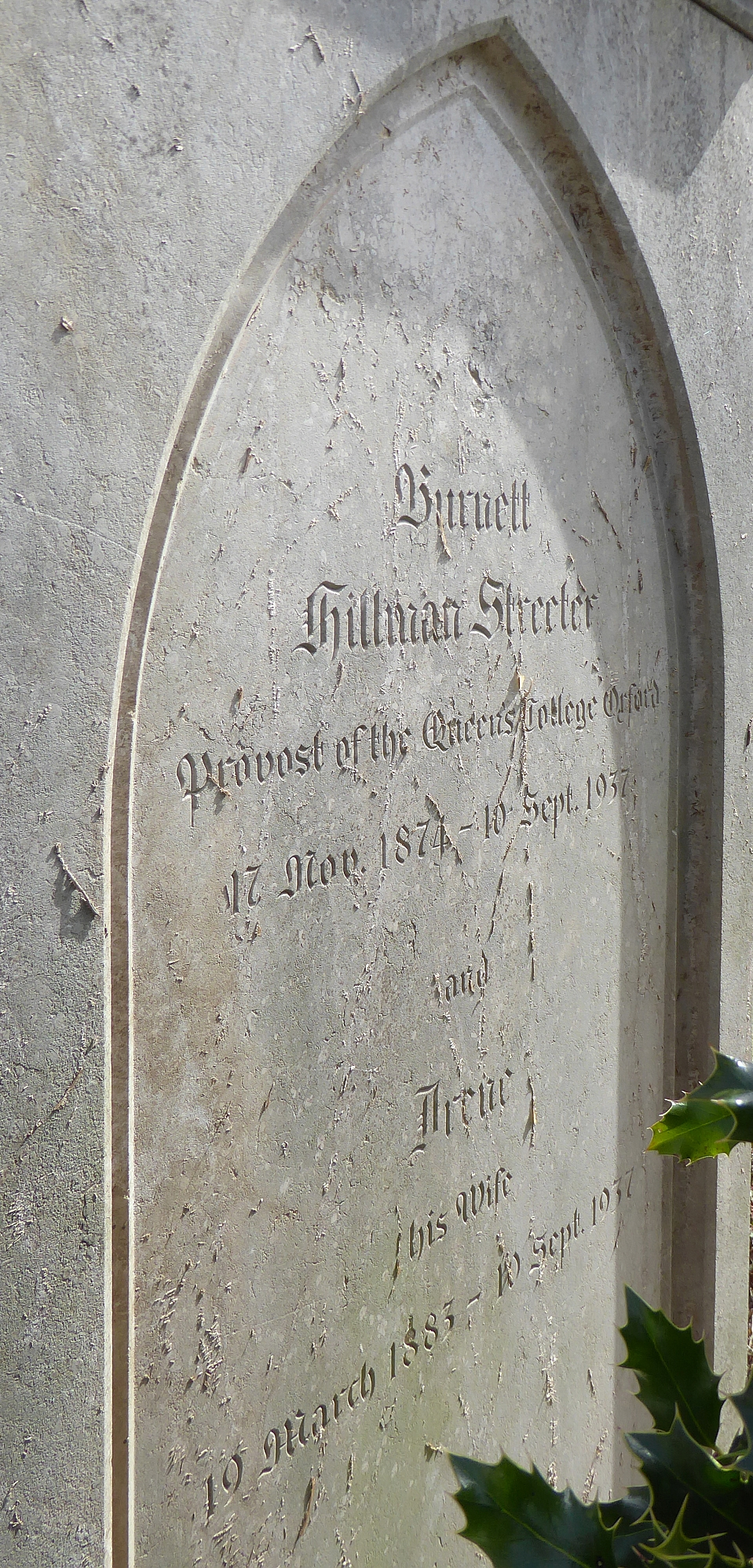 Burnett Hillman-Streeter (1874–1937) Provost oft he Queens College Oxford, British biblical scholar and textual critic. Irene Hillman-Streeter (1883–1937) Grave at the cemetery Hörnli, Riehen, Basel